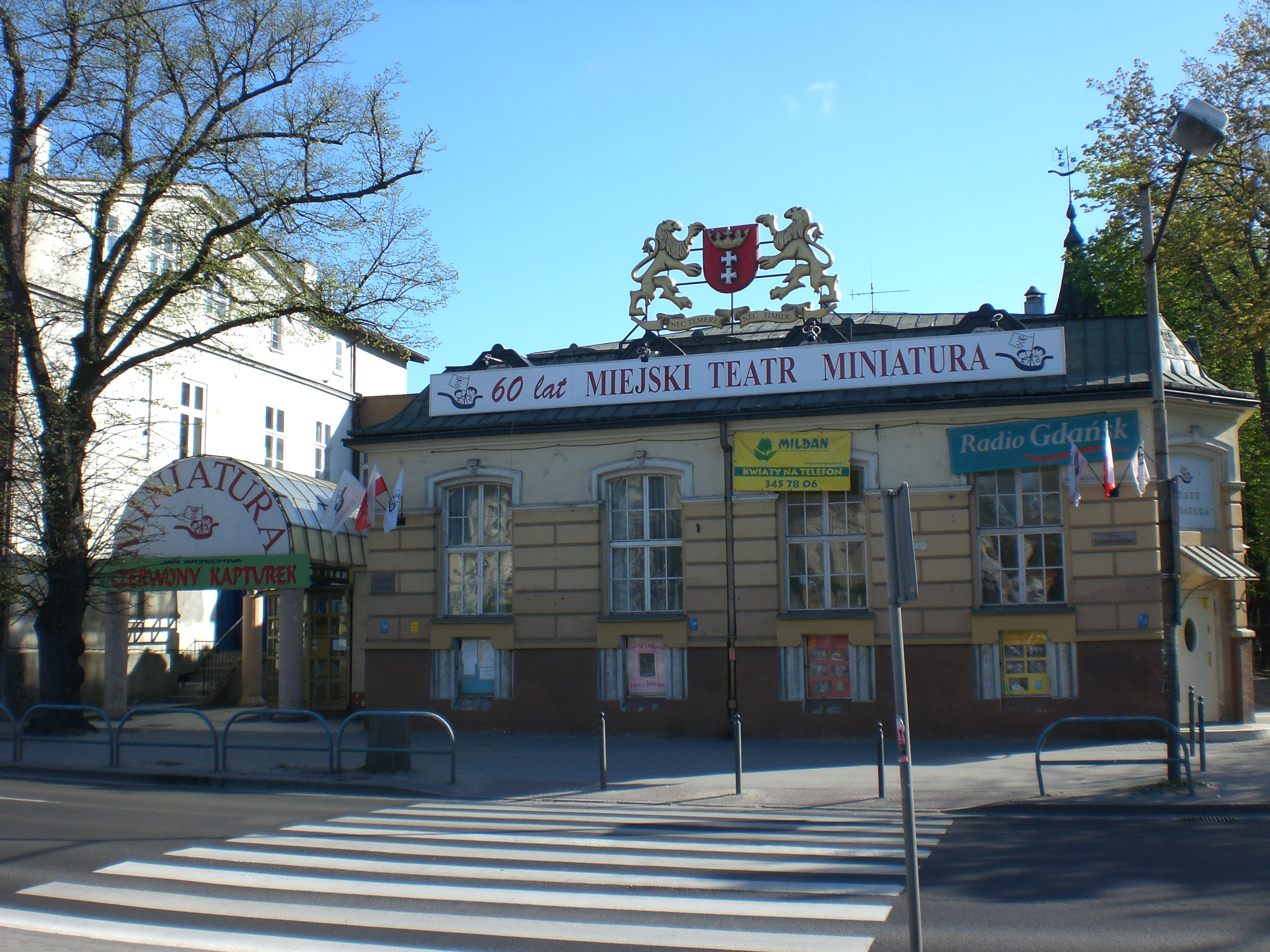 Miniatura Theatre in Gdańsk Wrzeszcz